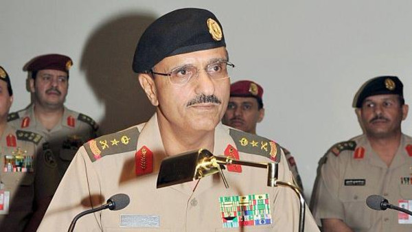 Khalid bin Bandar bin Abdulaziz Al Saud (Arabic: الأمير خالد بندر بن عبد العزيز آل سعود) (born 16 March 1951) is a member of the House of Saud and the governor of the Riyadh Province with the rank of minister. He is the first grandson of King Abdulaziz to be the governor of the Riyadh Province. Prince Khalid is also the thirteenth governor of the province.